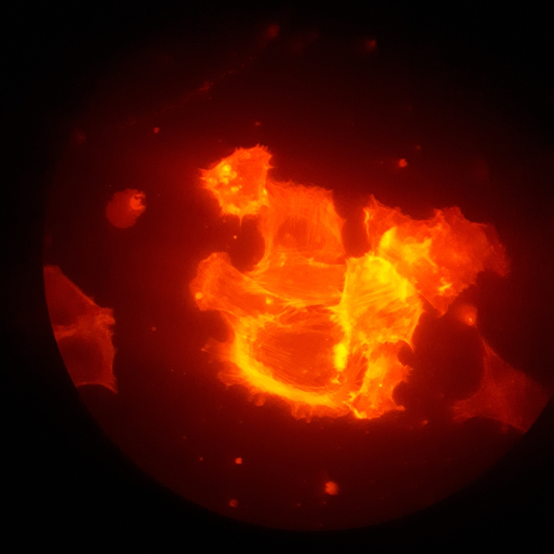 MYF (cancer cells) growed in a blebbistatin containing media (drug providing the contraction of the acto-myosin complex). Their shape can be observed under a microscope thanks to the red marked actin filaments.